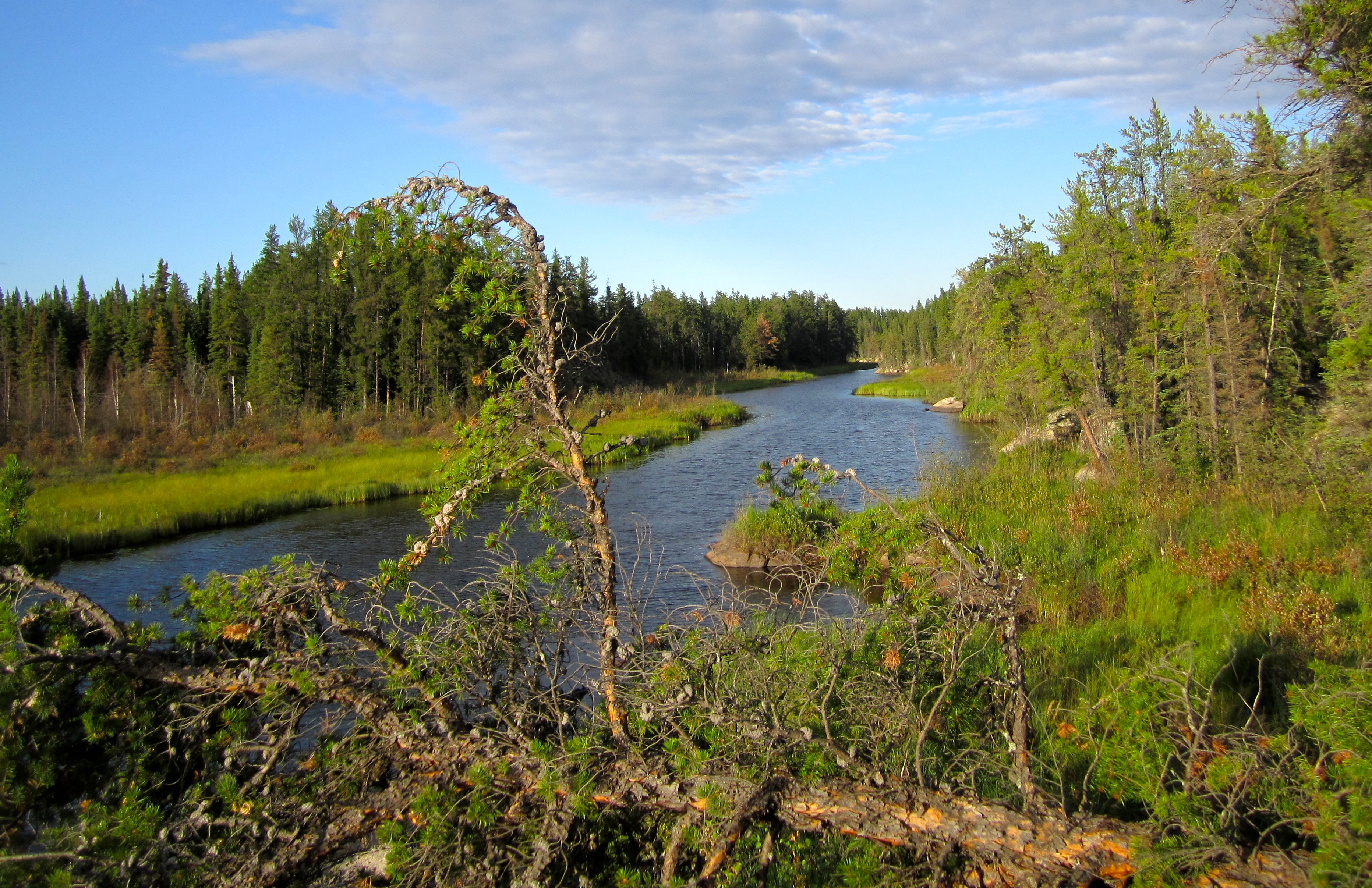 Mistik Creek looking upstream to the northeast between Nisto Lake and Nao Lake taken in the August 2012 at 08:00 am.